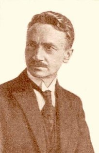 Bruno Hillmann (1869-1928), german clockmaker